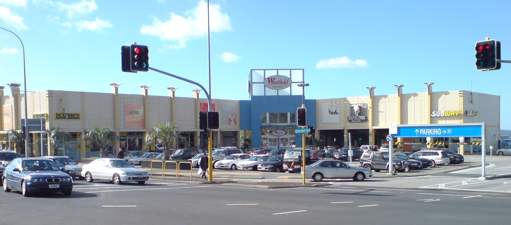 The front top parking lot at Westfield Glenfield in Auckland, New Zealand. Most of the parking, and most of the mall itself, is behind and below on further levels.